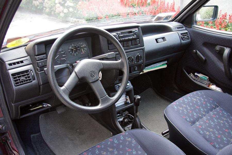 Volkswagen Polo CL Mark II Facelift (1990–1994), year 1993